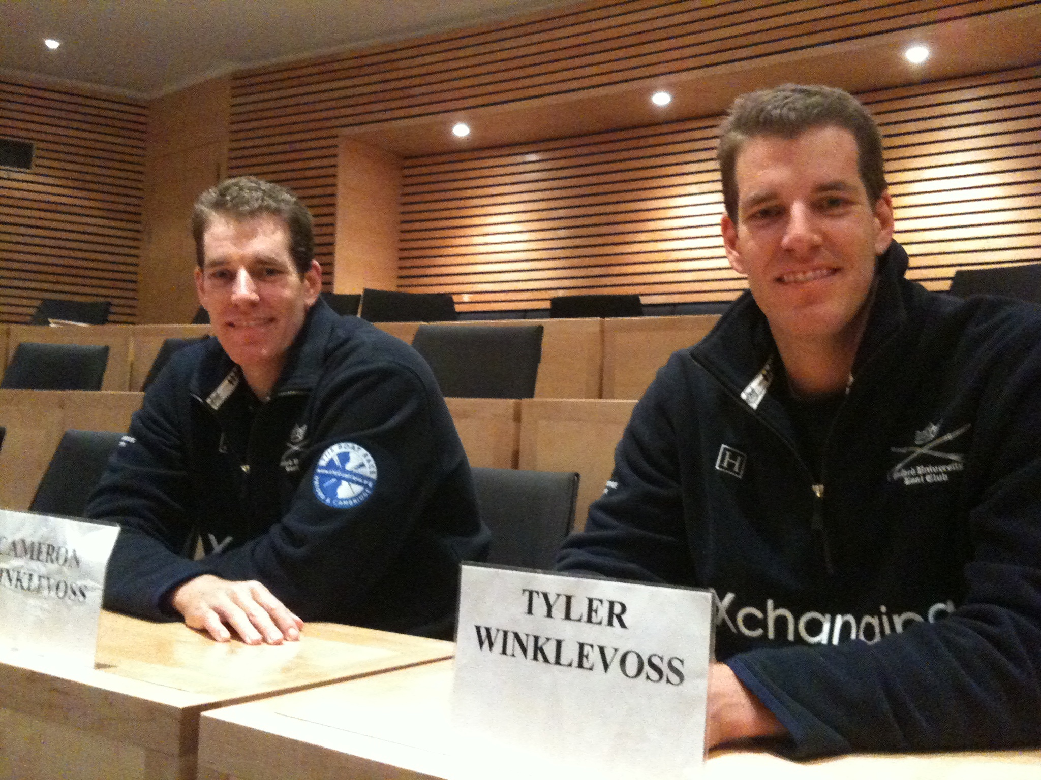 The Winklevoss twins mounted a lengthy legal battle against Mark Zuckerberg, claiming he'd stolen the idea for Facebook from them. They are pictured in March 2010 when they were studying in Oxford on the MBA course